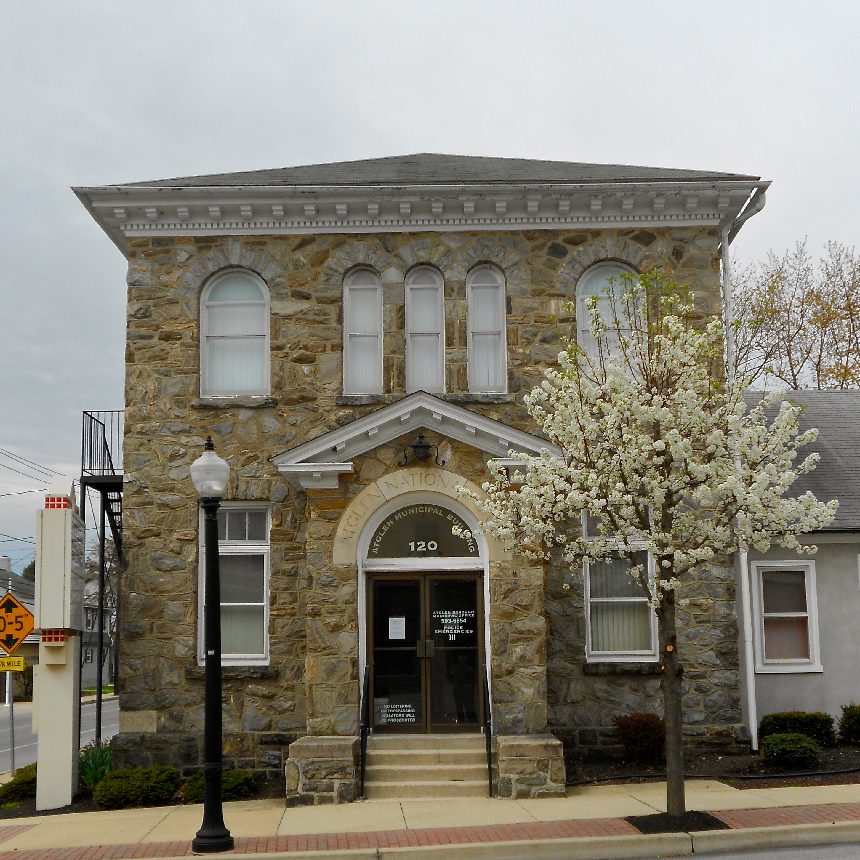 Municipal building in Atglen, Pennsylvania. Formerly a bank.